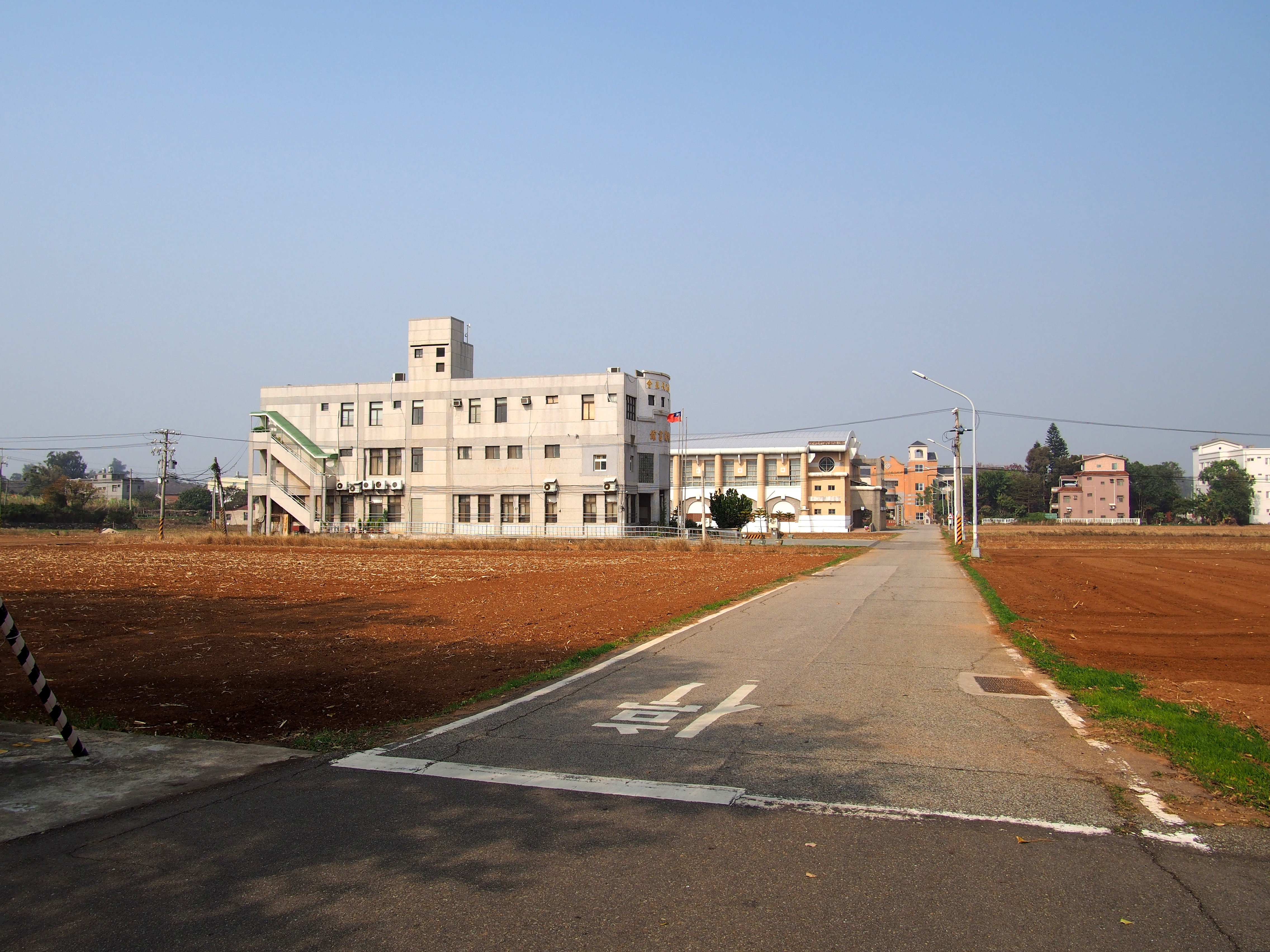 Lieyu Township Library - 2015.01